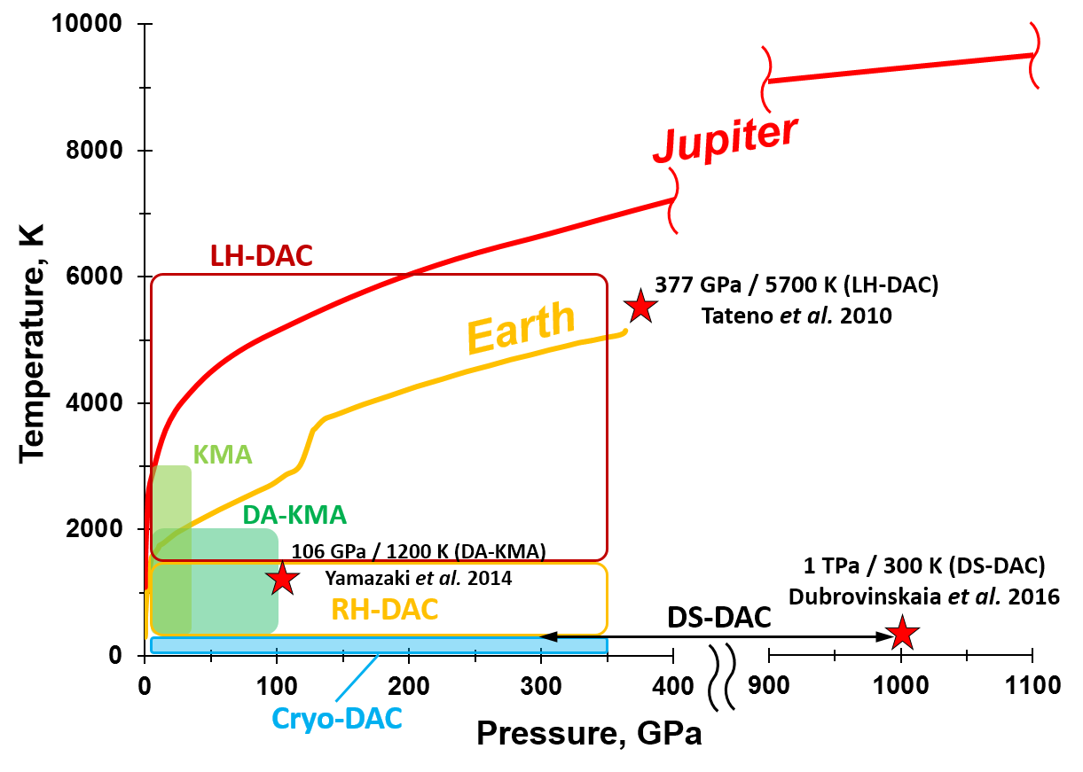 Conditions achievable using different methods of static pressure generation: LH-DAC - diamond anvil cell with laser heating; RH-DAC - diamond anvil cell with resistive heating; DS-DAC - double-stage diamond anvil cell; KMA - Kawai multi-anvil apparatus; DA-KMA - diamond-anvil Kawai multi-anvil apparatus. Earth geotherm and a part of Jupiter 'geotherm' are shown for comparison.